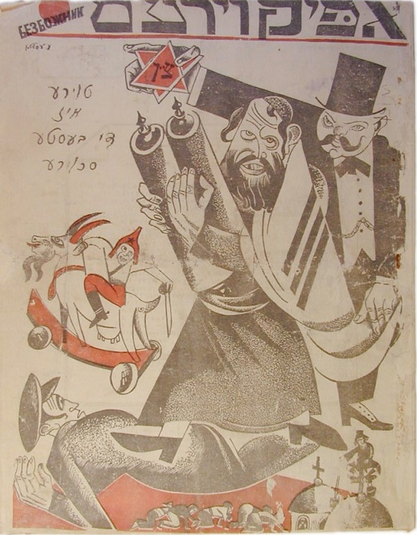 Cover art of the Soviet League of Militant Atheists-affiliated Yiddish magazine "Der Apikoyres", published in Kiev, August 1923. A rabbi, standing in front of a Capitalist holding a Star of David with the inscription "Zion", clasps a Torah scroll while treading upon a young Jew. The caption to the left, written in the Soviet de-Hebraized orthography of Yiddish, reads: "Torah is the best merchandise!"